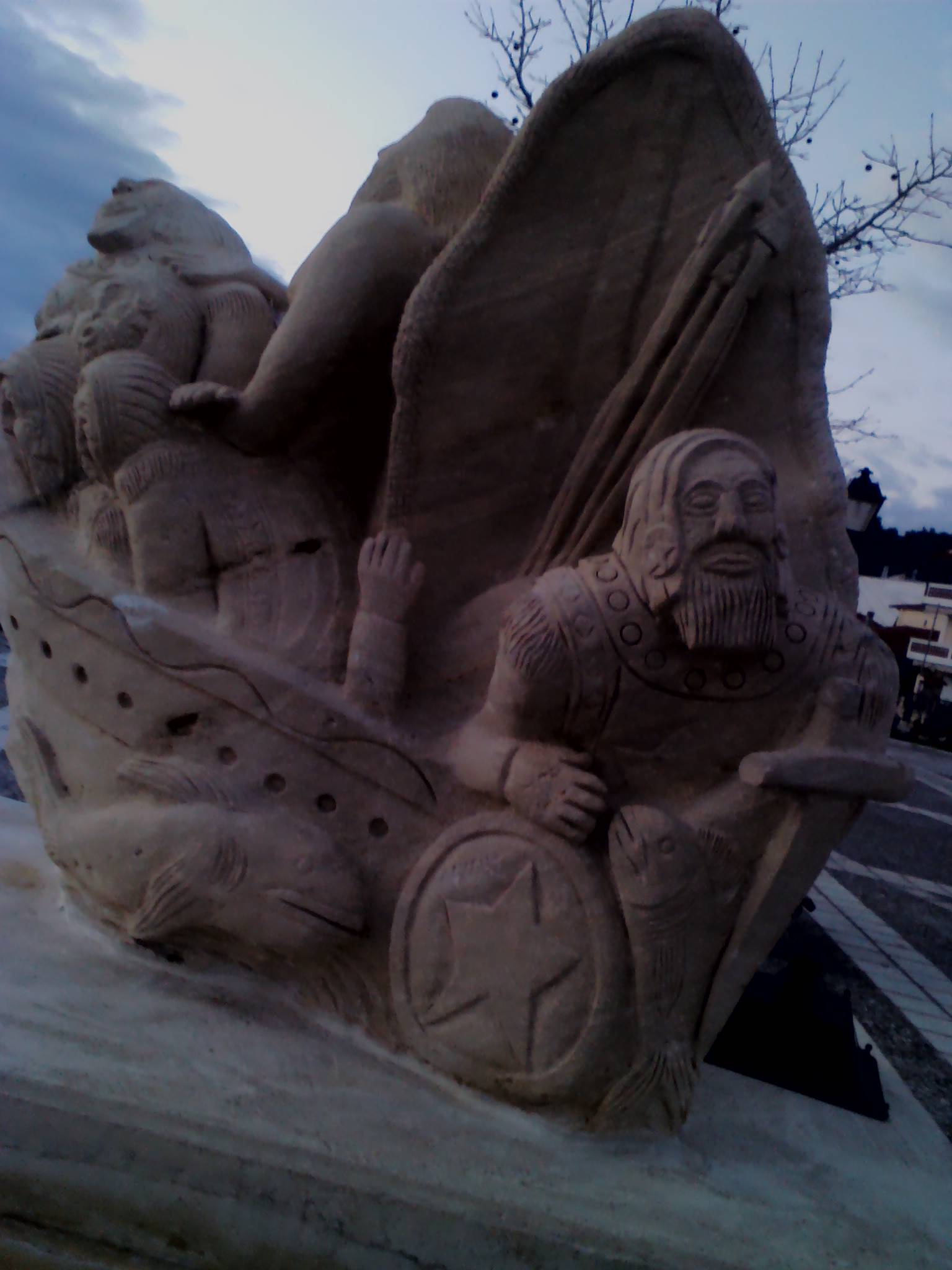 Statue of Skyllias at Nea Skioni